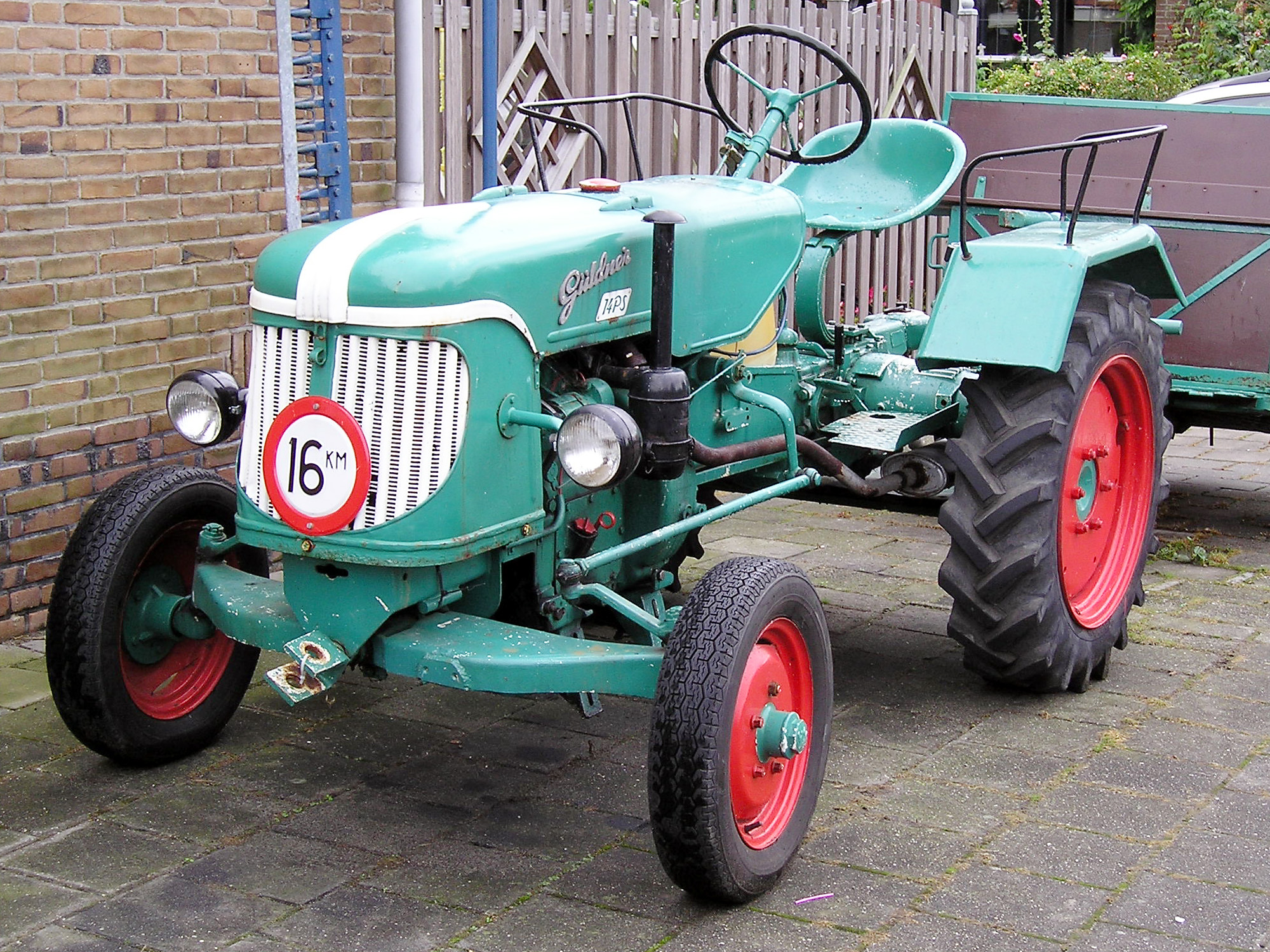 Vintage Güldner tractor (14 hp) in Marken village, Netherlands.